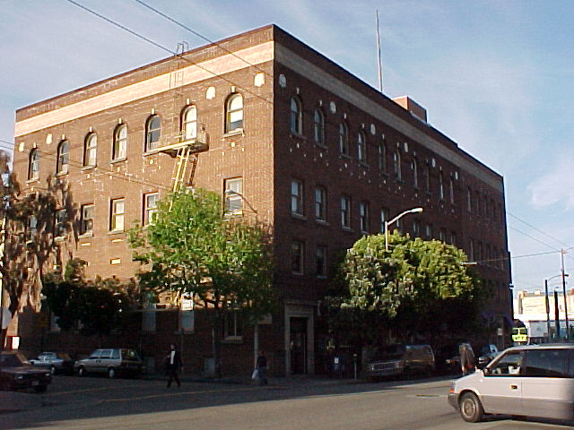 Redstone Building looking North East Built as The San Francisco Temple of Labor the Redstone building was the head-quarters for planning the 1934 San Francisco General Strike It is now a San Francisco landmark #238